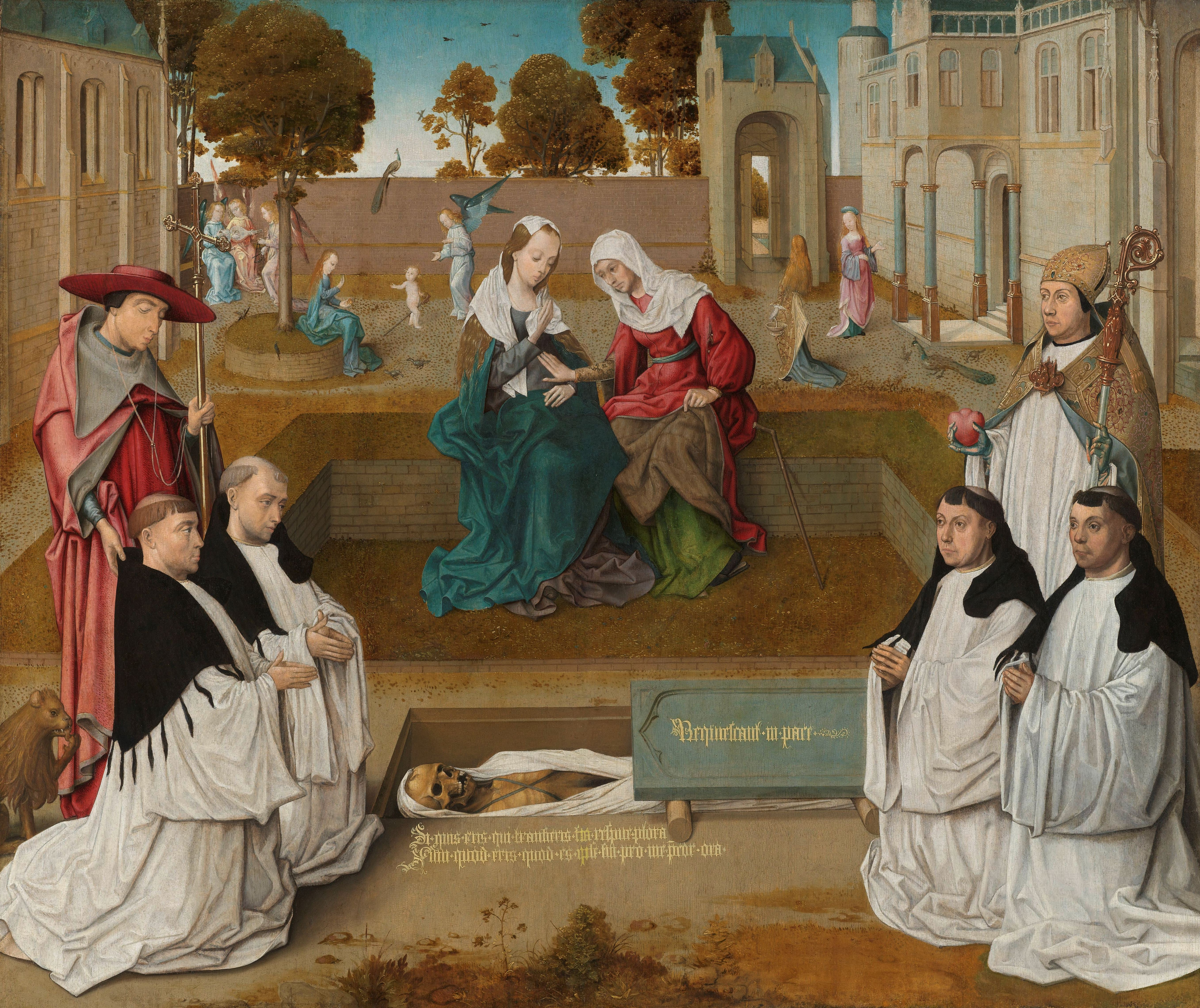 Four Canons Regular of the Augustine chapter of sion kneeling, two by two at an open grave meditating the fragility of life. In the grave lies a half-decayed body. On the left Saint Jerome, on the right Saint Augustine. Mary and Elizabeth are sitting on a sod bench. In the background an enclosed courtyard where the Christ child is playing accompanied by angels.